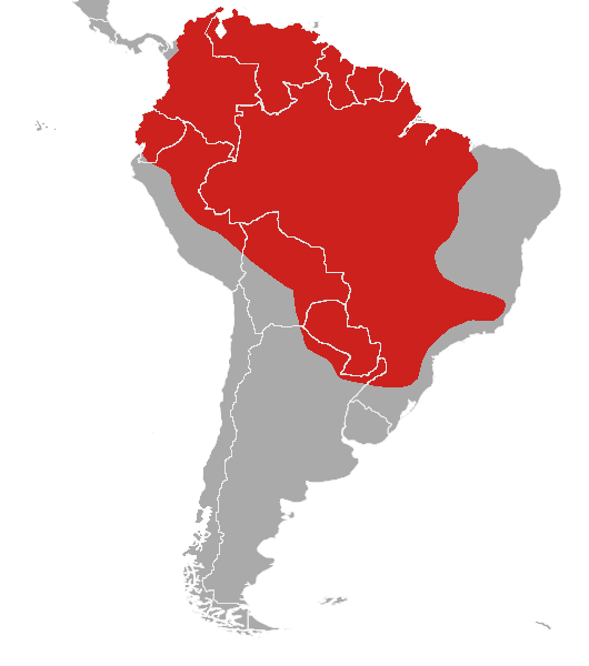 Mazama_americana_map